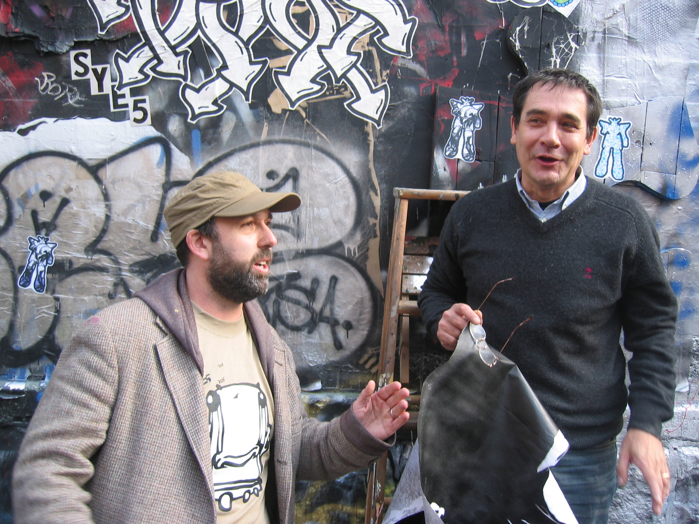 Video at cf.